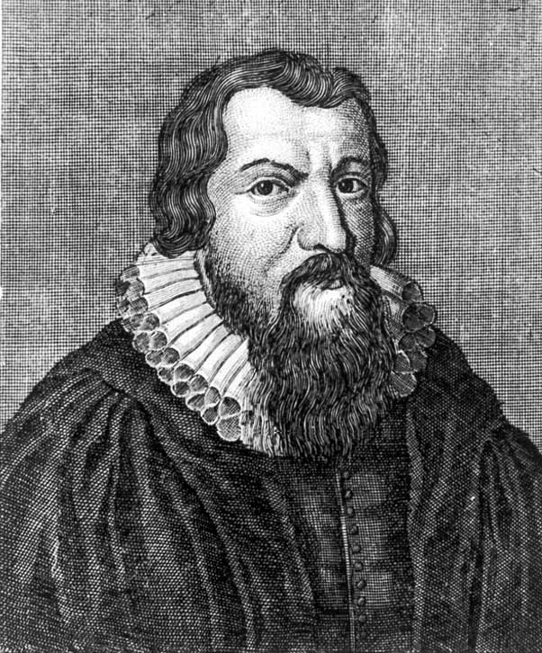 Reinhard Bake (1587-1657) german protestant Theologian